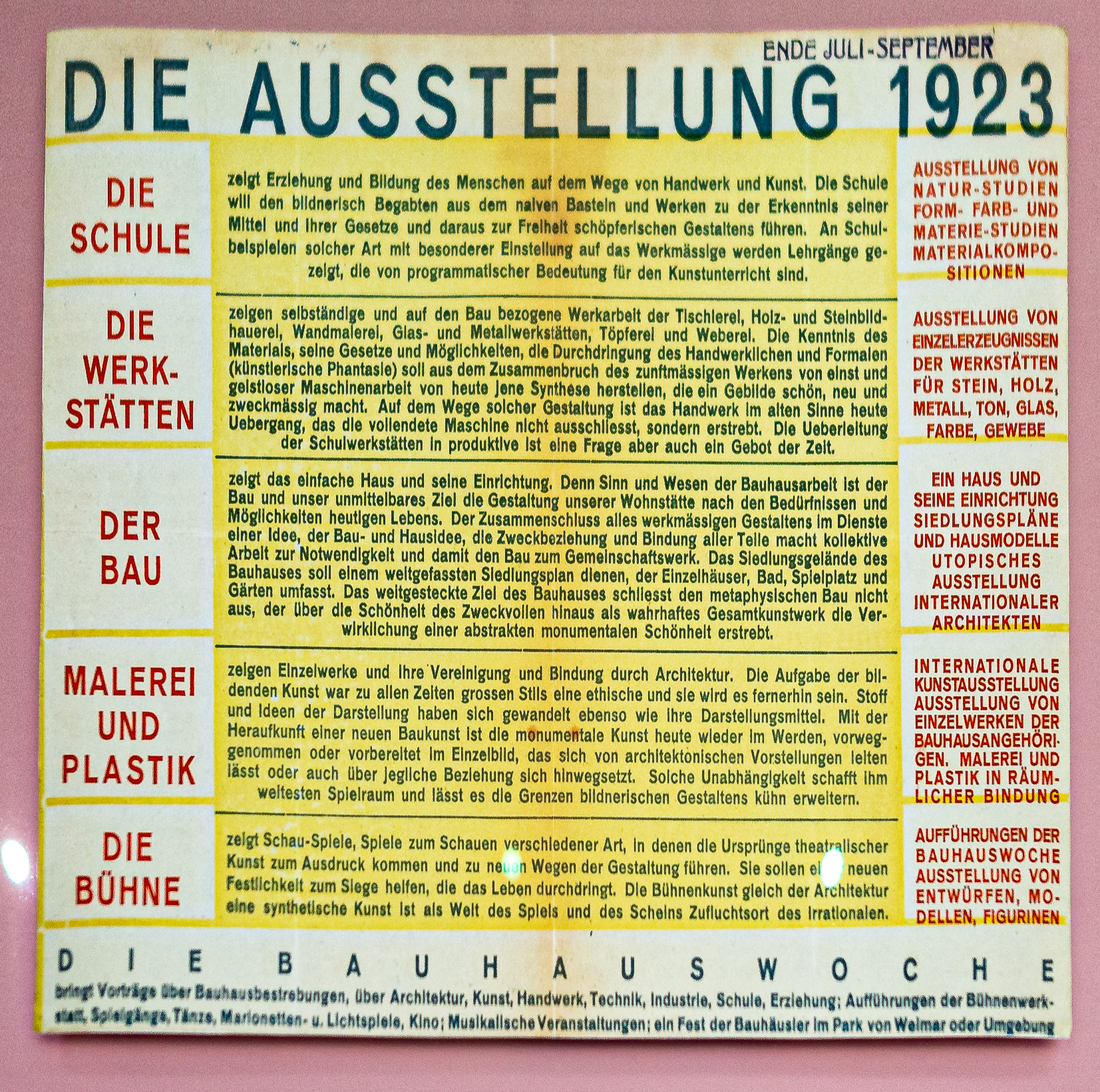 Bauhaus Exhibition of 1923, advertising flyer